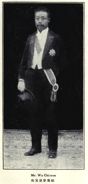 Wu Jisun (1876-？)